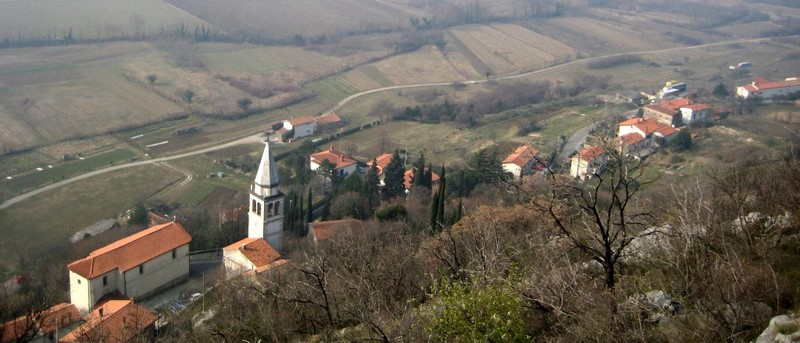 Small village near to Koper, Slovenian coast. Surrounded by an exposed rock wall, which is a popular sport climbing area in Slovenia.